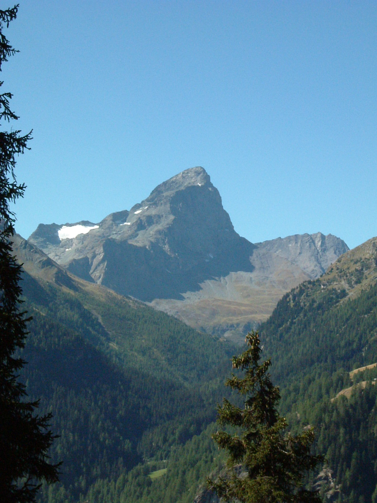 Piz Platta, viewed from Pale Radonda, above Mulegns, Julier Valley, Switzerland